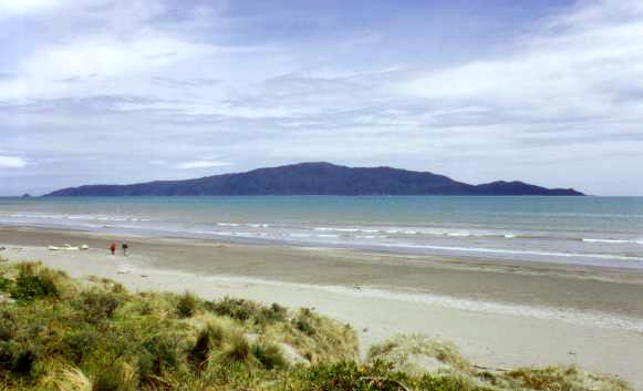 Kapiti Island seen from Waikanae Beach, New Zealand. Photograph taken in February 2000 by James Dignan.